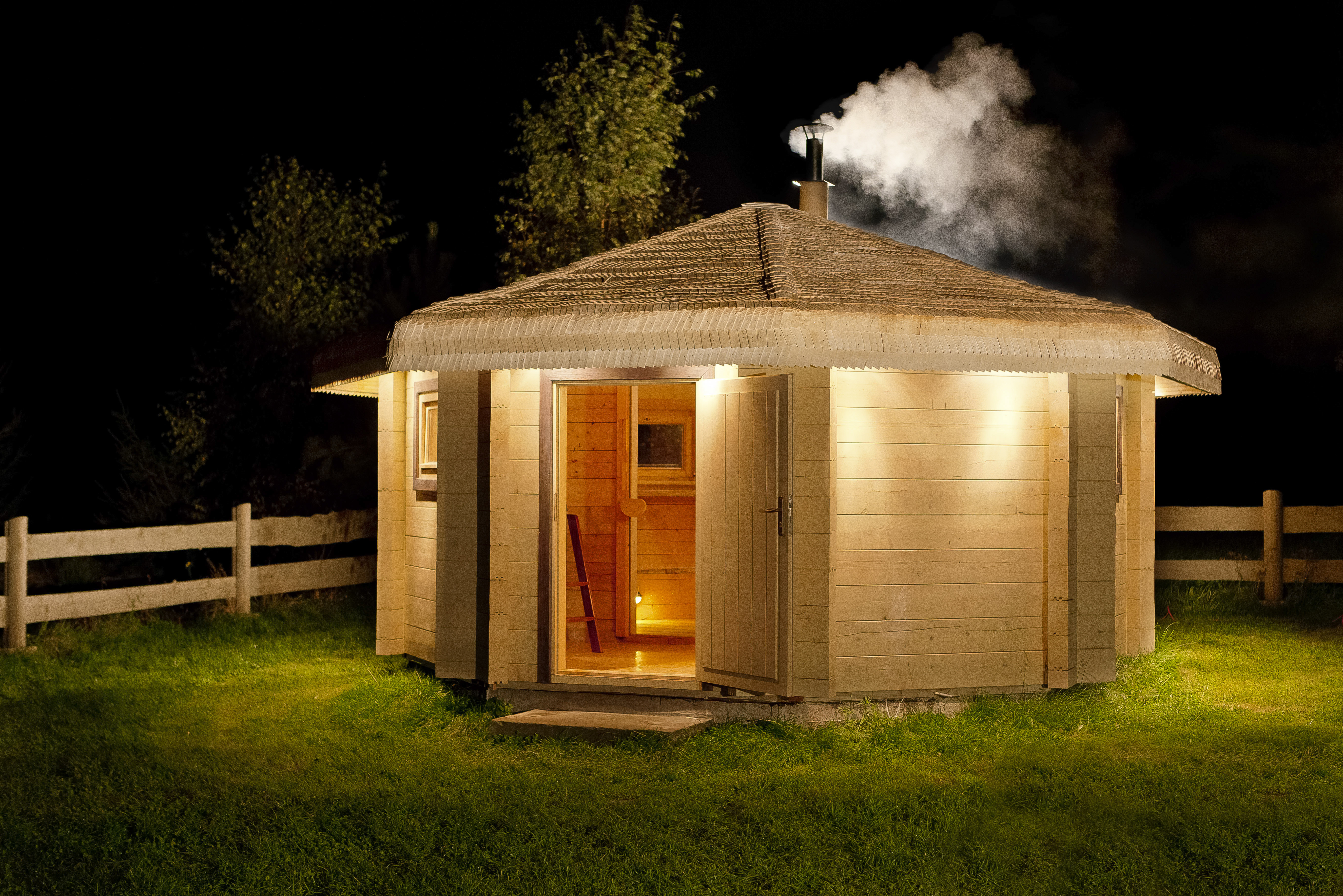 Log cabin sauna by Wako Log Homes (